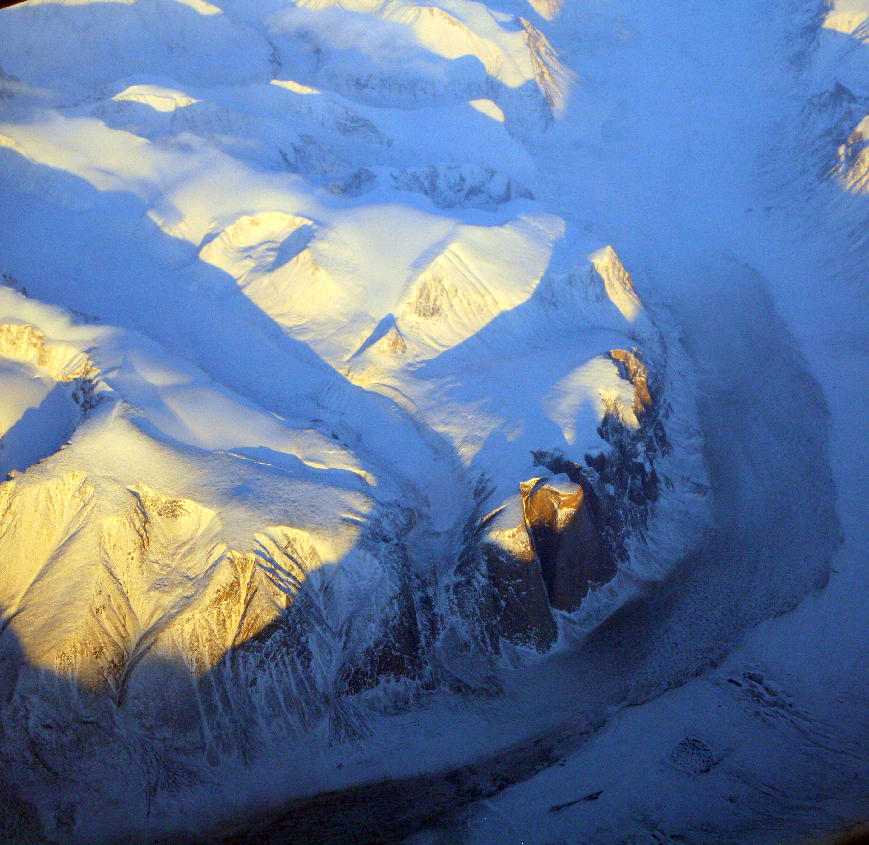 A bend in the 75mile long Akshayuk Pass, which connects north and south Pangnirtung fiords, beside the Penny Ice Cap on Baffin Island's Cumberland Peninsula. The ice cap is a remnant of the last ice age, when this whole scene (2.8 billion year old rock) was carved by the movement of ice piled a mile high on top of it. To the left or west is the Auyuittuq National Park. This is in one of the most spectacular, remote and barely-accessible places in the northern hemisphere. And amazing to see from above halfway between London and Los Angeles. Since it's just north of the Arctic Circle, the Sun won't see it at the Winter Solstice, one month past the day I shot this.